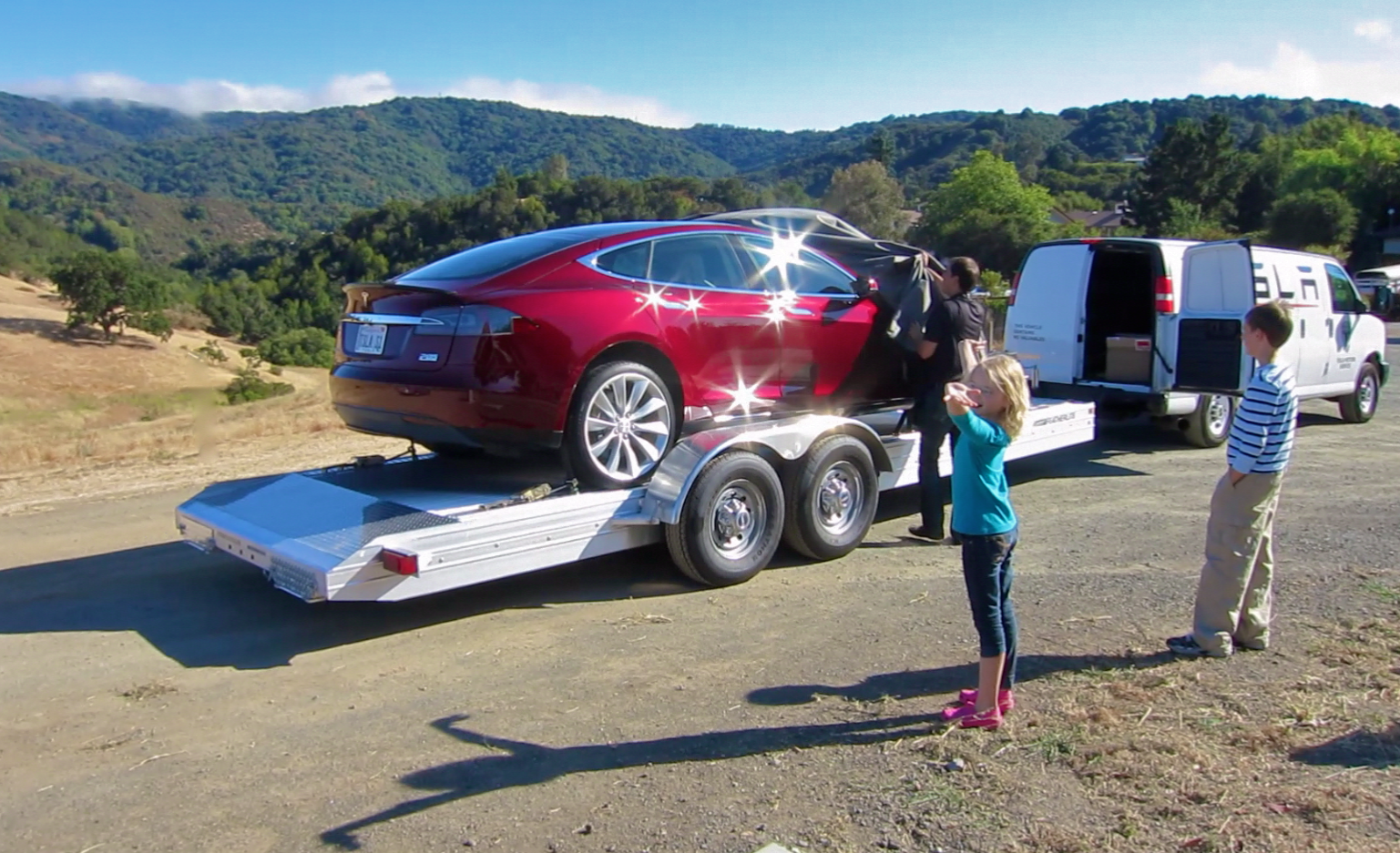 Personalized delivery of a Tesla Model S